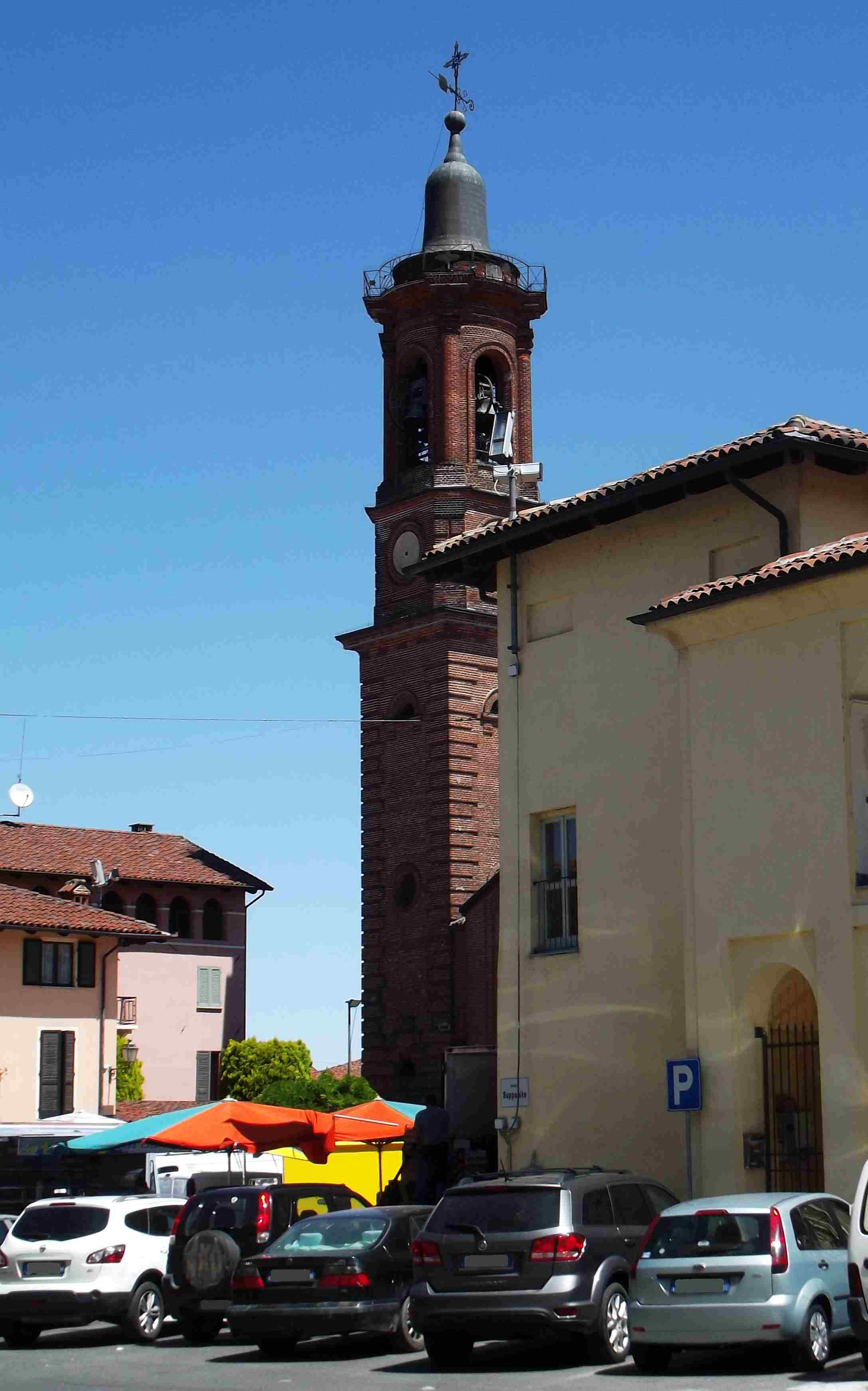 Villanova d'Asti (AT, Italy): churcch tower